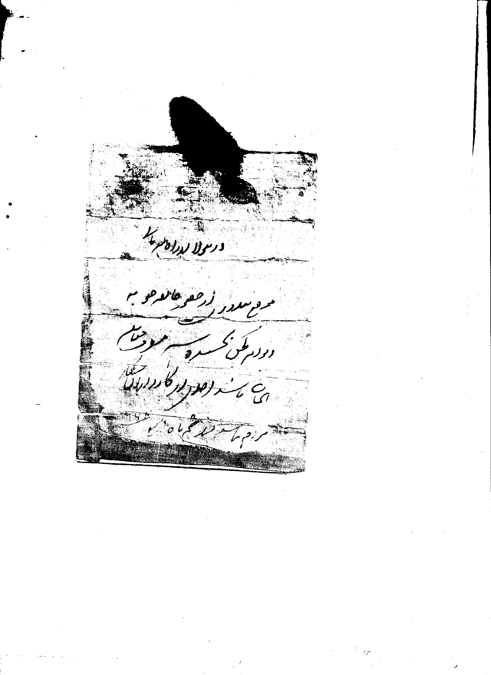 This certificate was given by The Nawab of Raikot to Baba Gajjan Shah jiਪੰਜਾਬੀ: ਇਹ ਸਰਟੀਫਿਕੇਟ ਨਵਾਬ੍ ਰਾਏਕੋਟ੍ ਨੇ ਬਾਬਾ ਗਜਣ ਸ਼ਾਹ ਨੁੰ ਦਿਤਾ